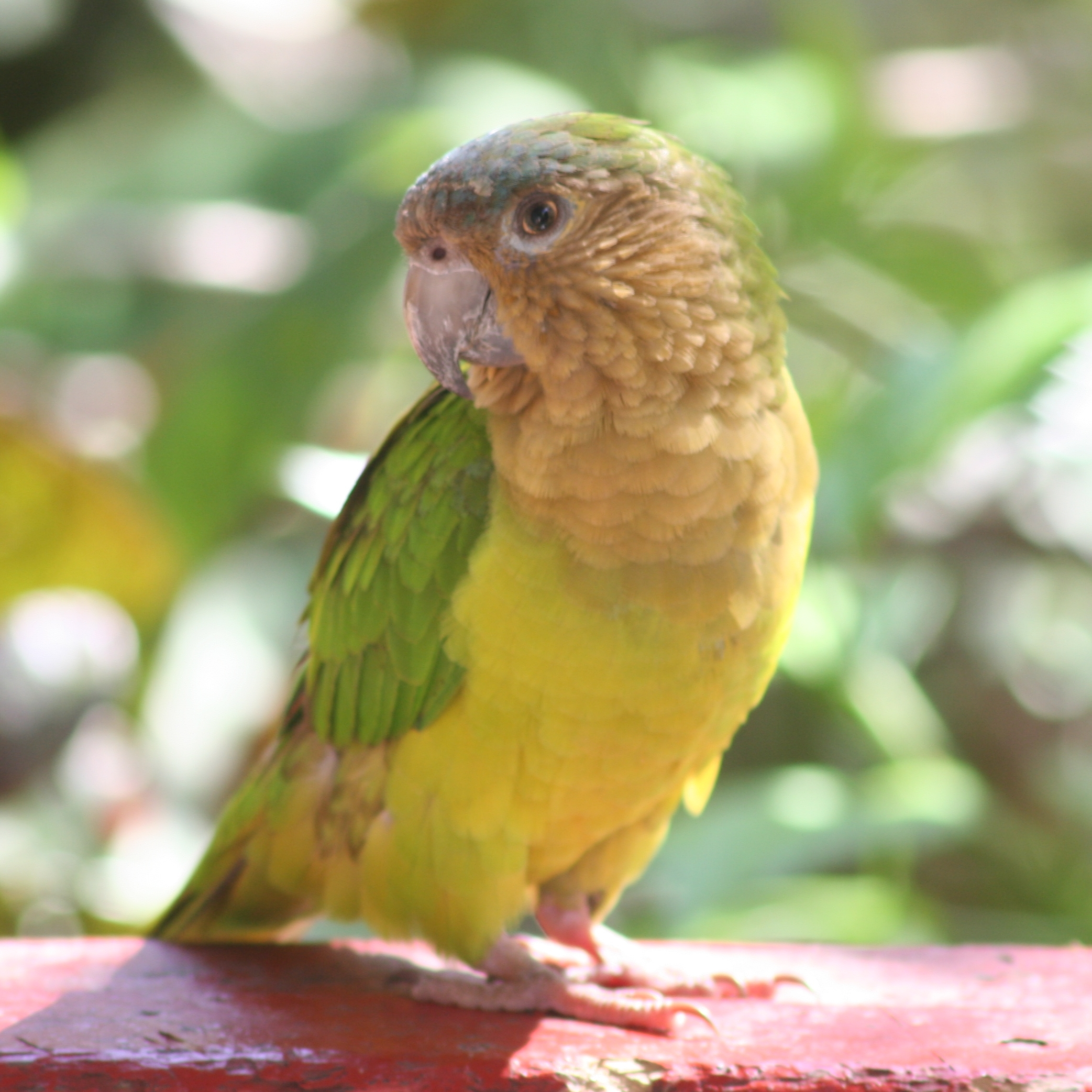 Brown-throated Conure (also known as the Brown-throated Parakeet) in Islas del Rosario, Columbia. In the National Park called Islas Corales del Rosario y San Bernardo.